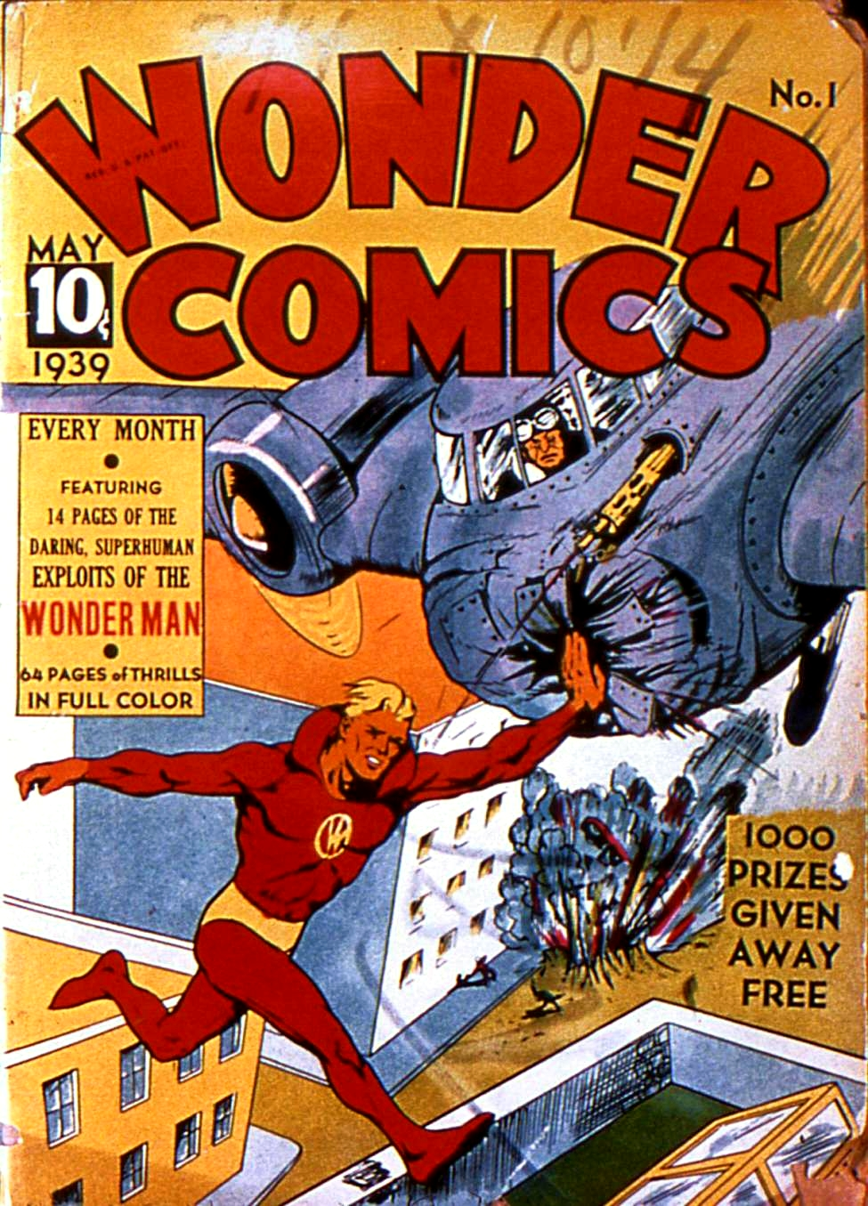 Cover of Wonder Comics #1, the only appearance of the character.